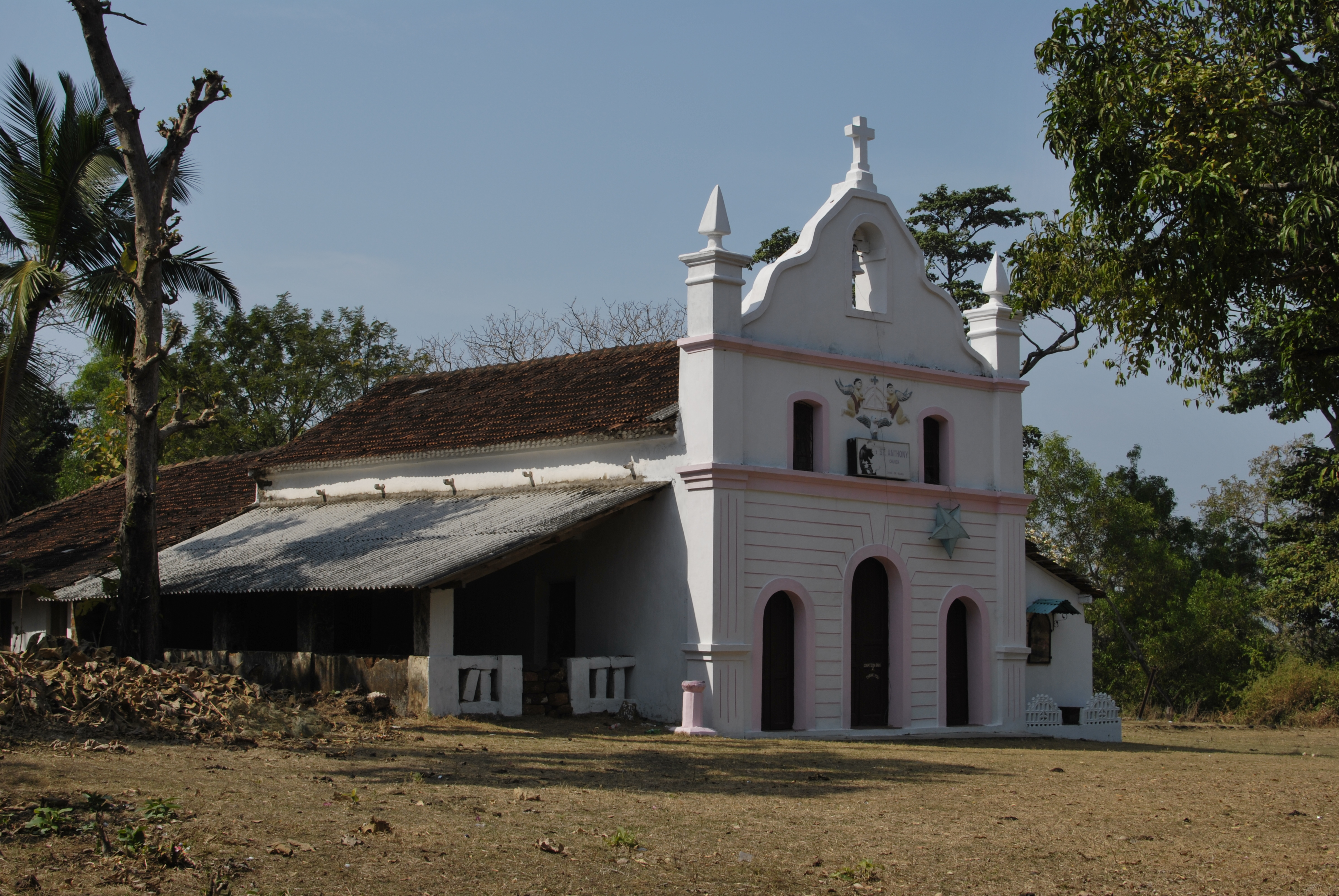 Church at Cabo da Rama